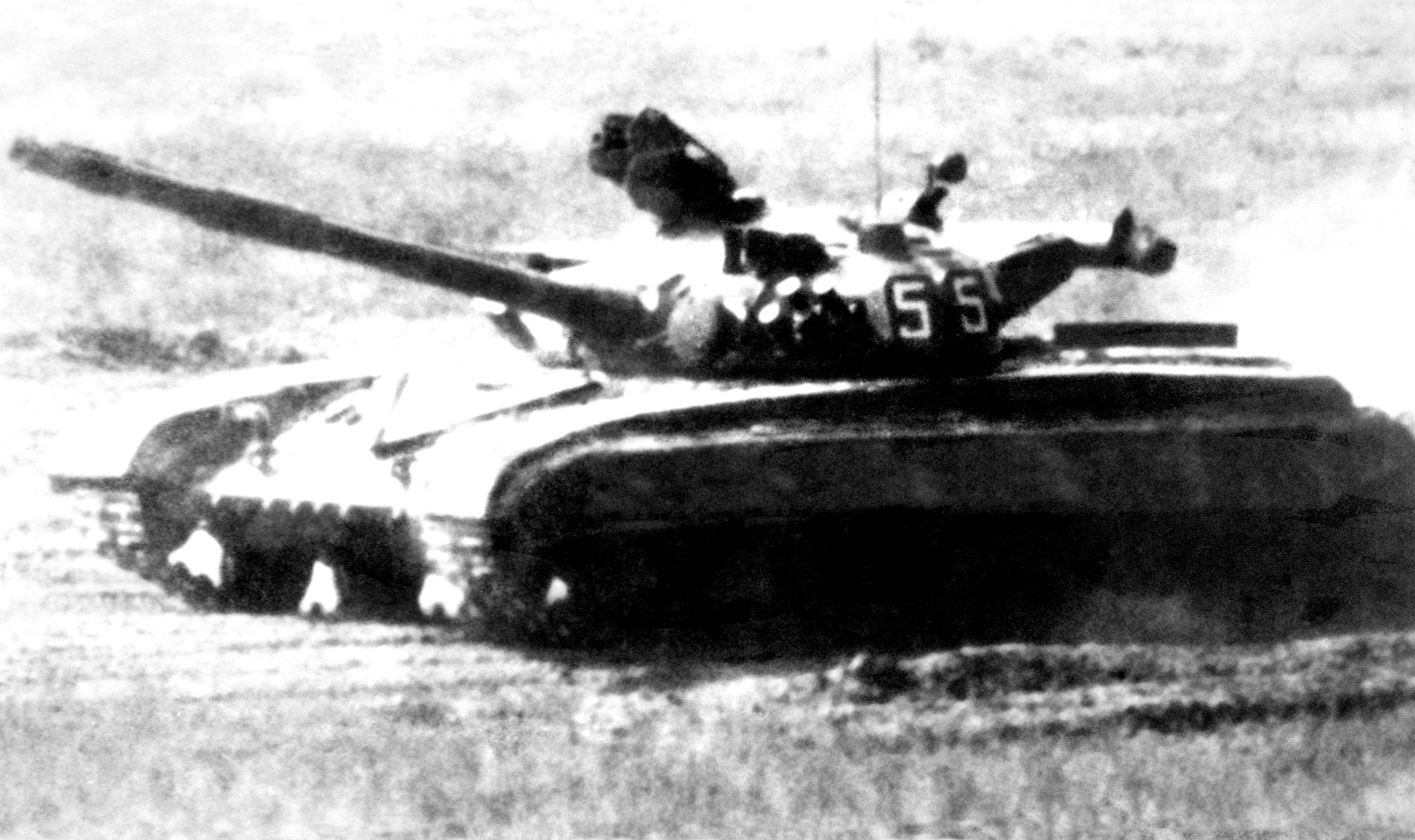 T-64 main battle tank. Courtesy of Soviet Military Power, 1984. Photo No. 96, page 94, top center.